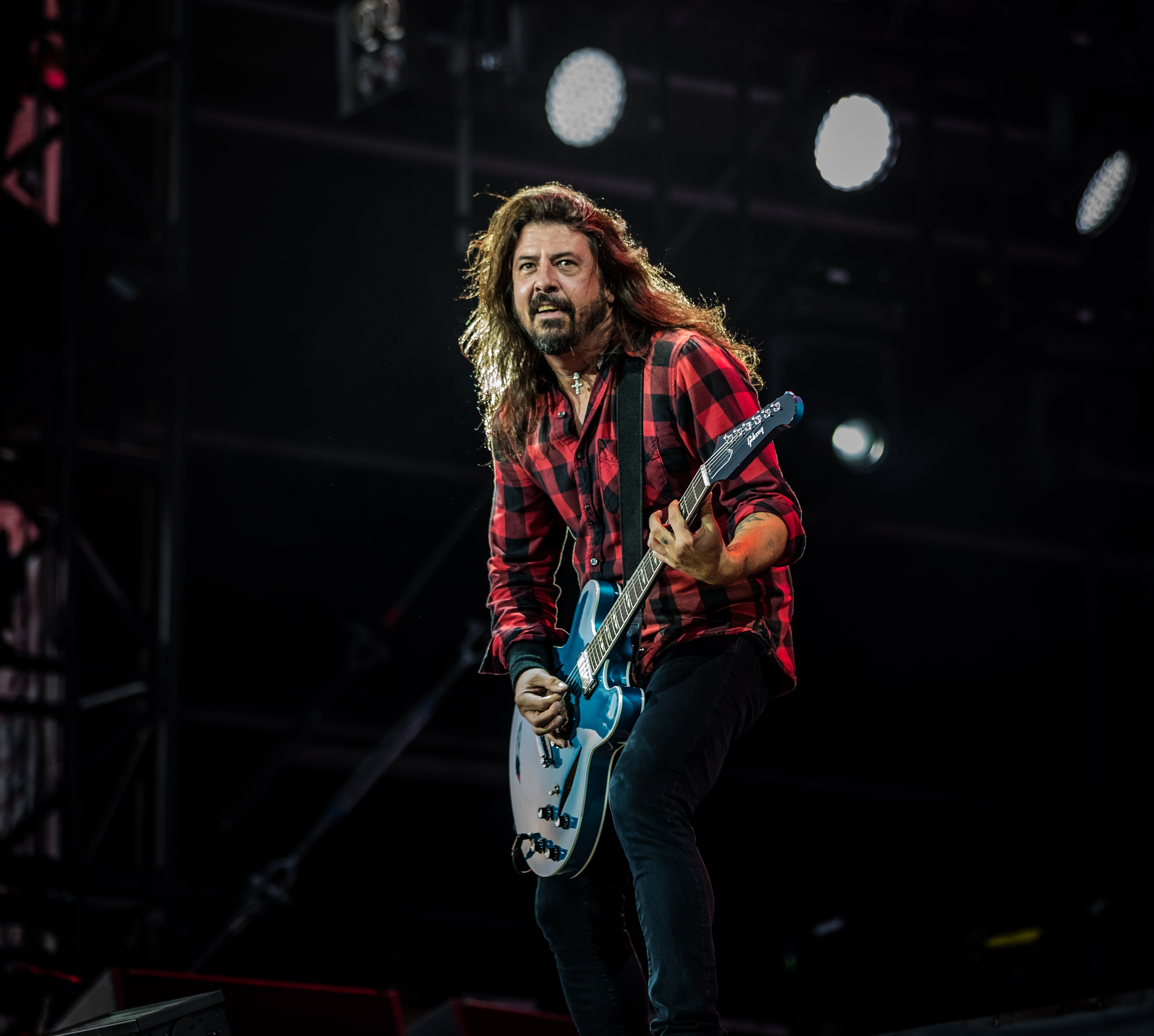 Foo Fighters - Rock am Ring 2018